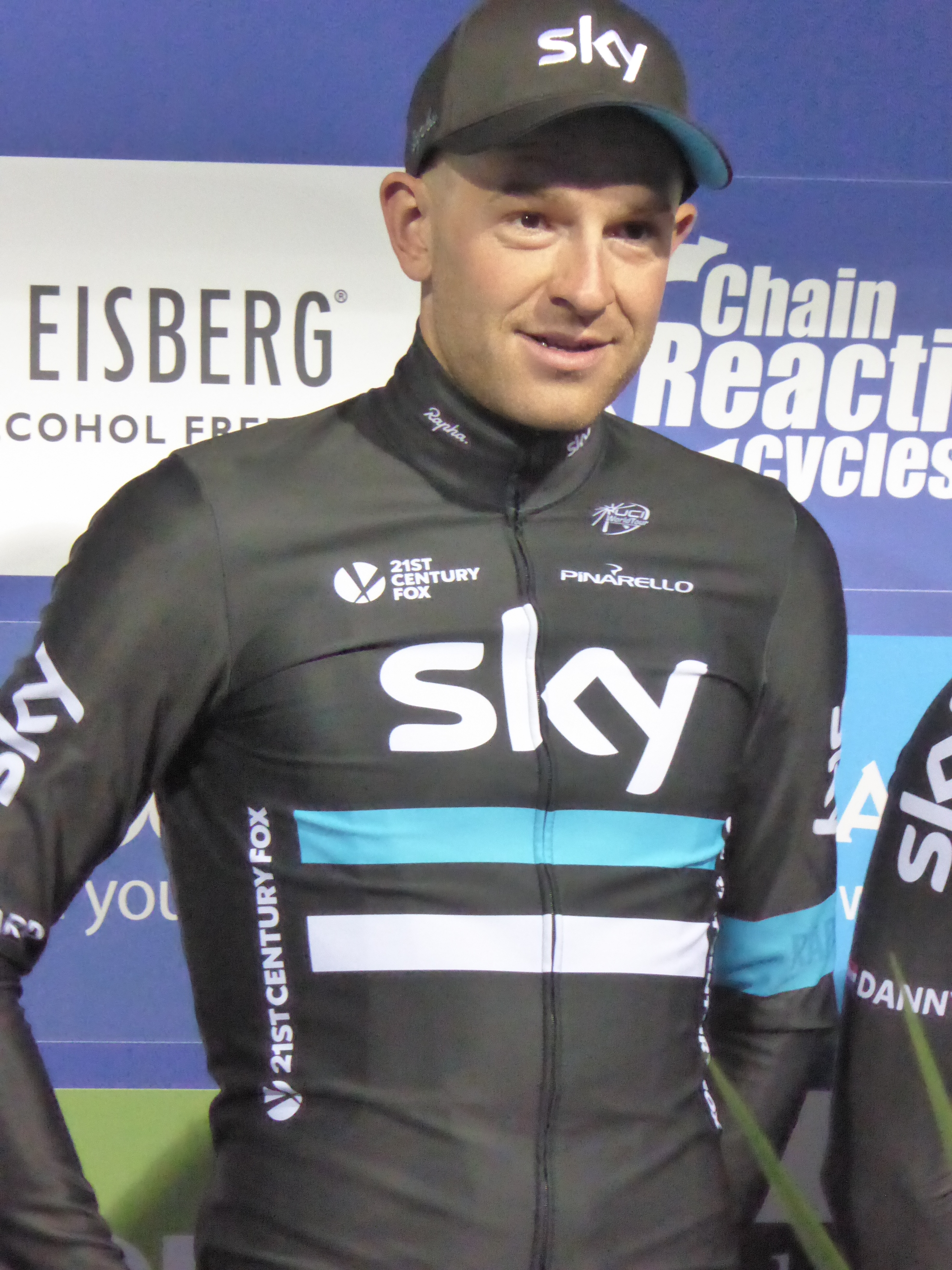 Ian Stannard (Team Sky), pictured at the 2016 Tour of Britain team presentation in Glasgow on 3 September 2016.